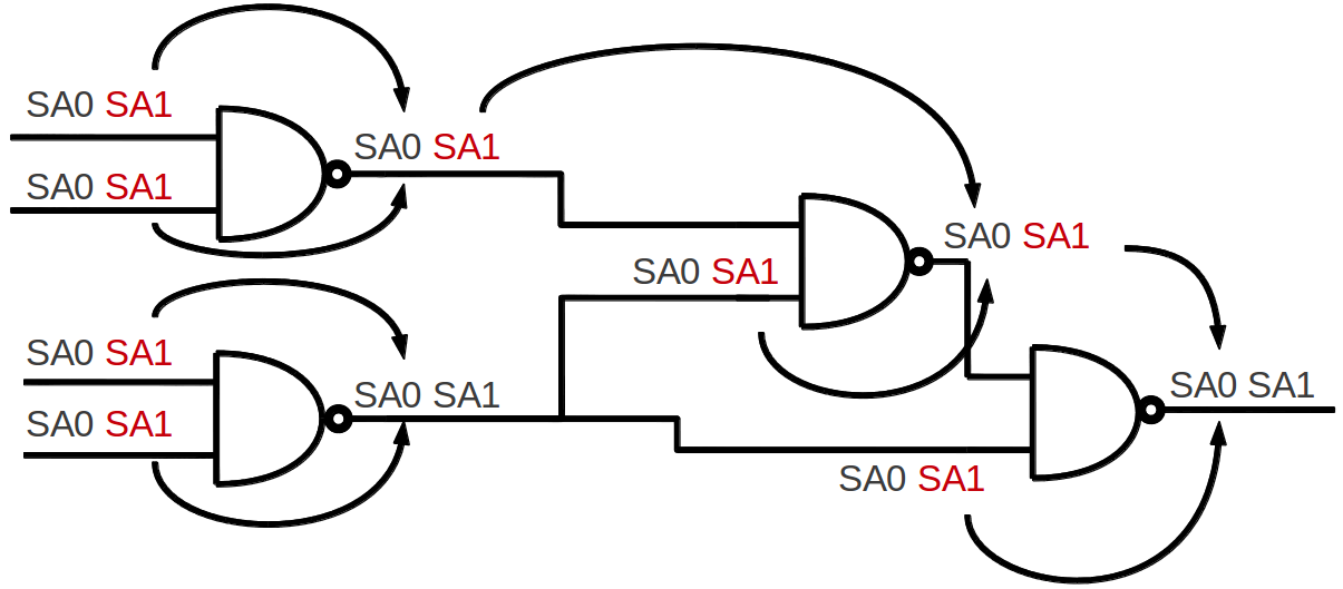 fault equivalence example for a NAND circuit